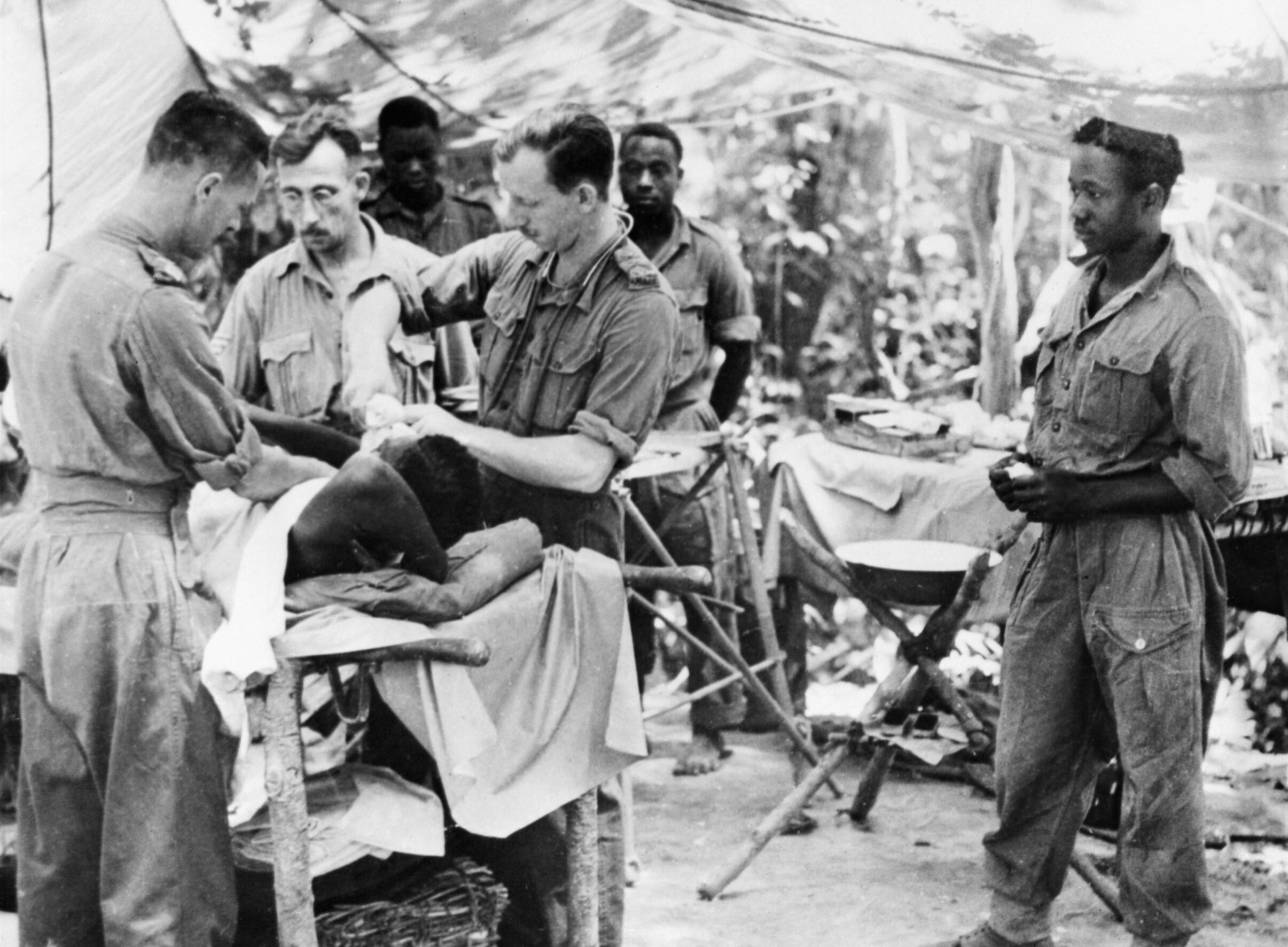 West African Casualties in Burma, August 1944 Doctors tend a wounded soldier of the 81st West African Division in an improvised operating theatre in the Kaladan Valley, Burma.